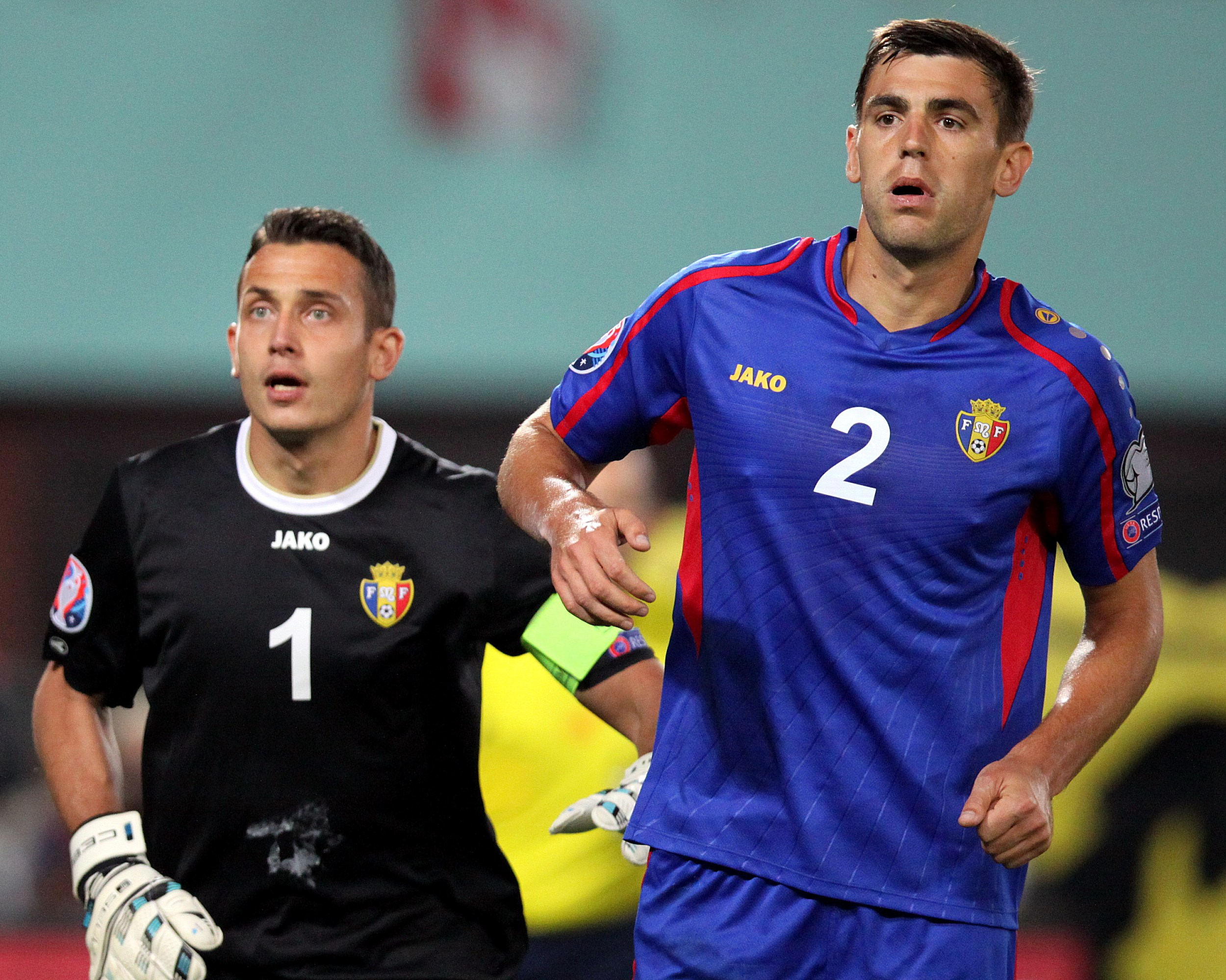 UEFA Euro 2016 qualifying, Group G – Austria national football team (red shirts) vs. Moldova national football team (blue shirts) on 2015-09-05 in Ernst-Happel-Stadion, Vienna: The photo shows Ilie Cebanu (left) and Igor Armaș (right)